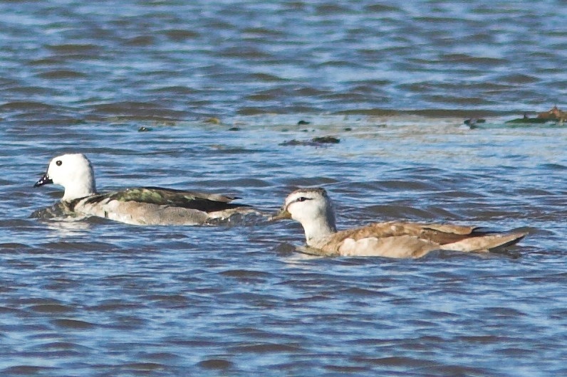 Cotton Pygmy-goose, Nettapus coromandelianus - male (left) and female, race albipennis.